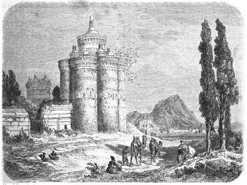 Dovecote near Isfahan.